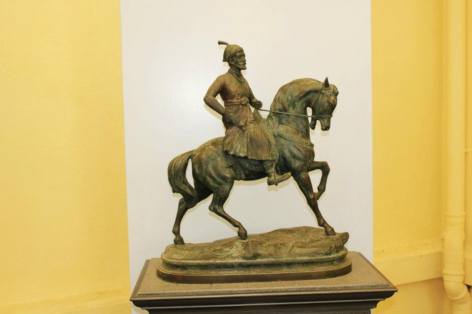 A miniature bronze of Shivaji Maharaj at Shree Bhavani museum, Aundh Maharashtra, India